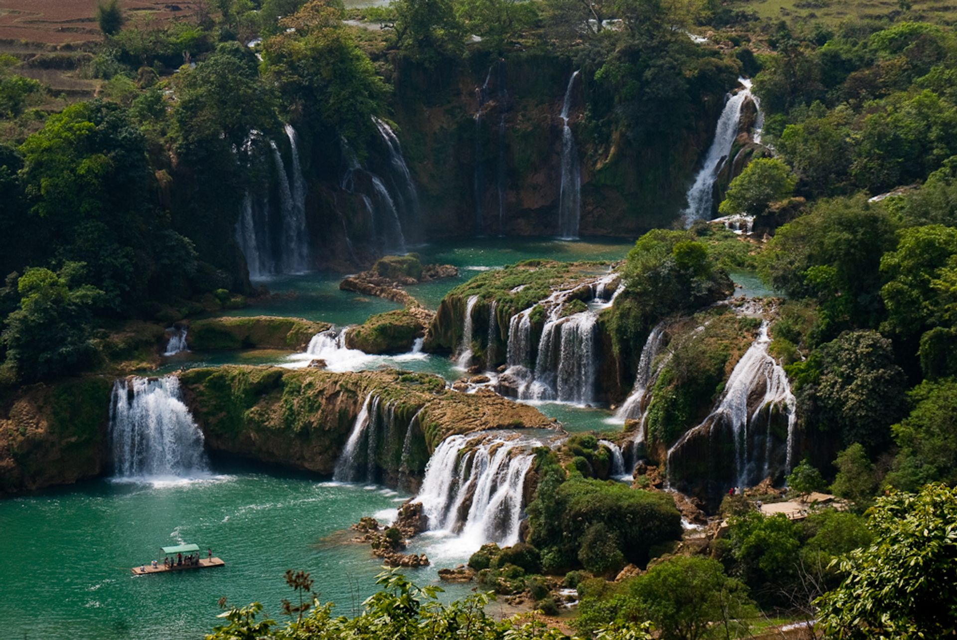 Ban Gioc – Detian Falls in the Sino-Vietnamese border